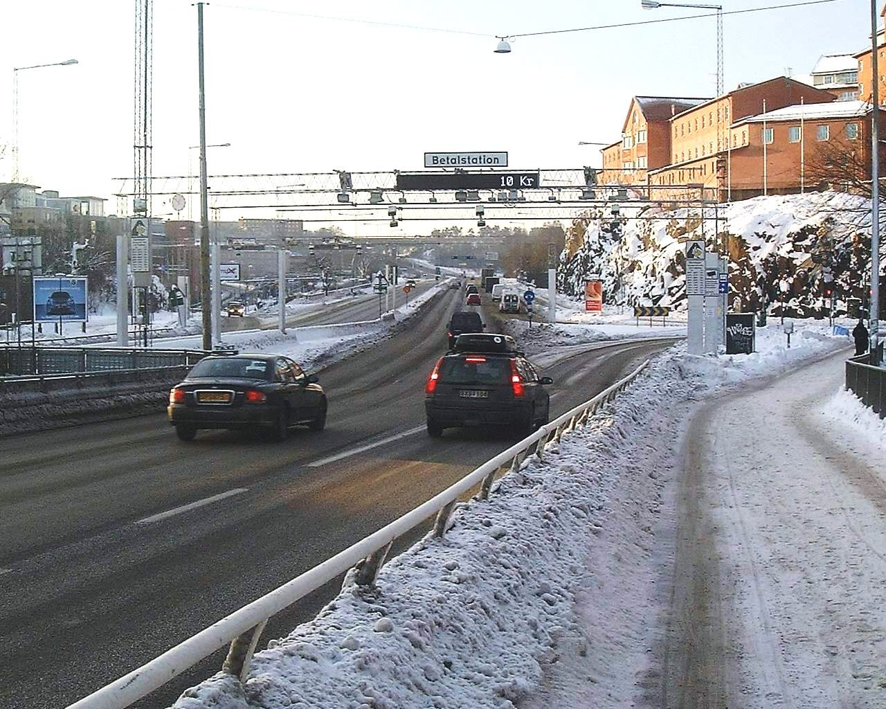 Automatic tollstation att Liljeholmen, Stockholm, Sweden. I took this photo myself. See also: Image:Betalstation Liljeholmen.JPG